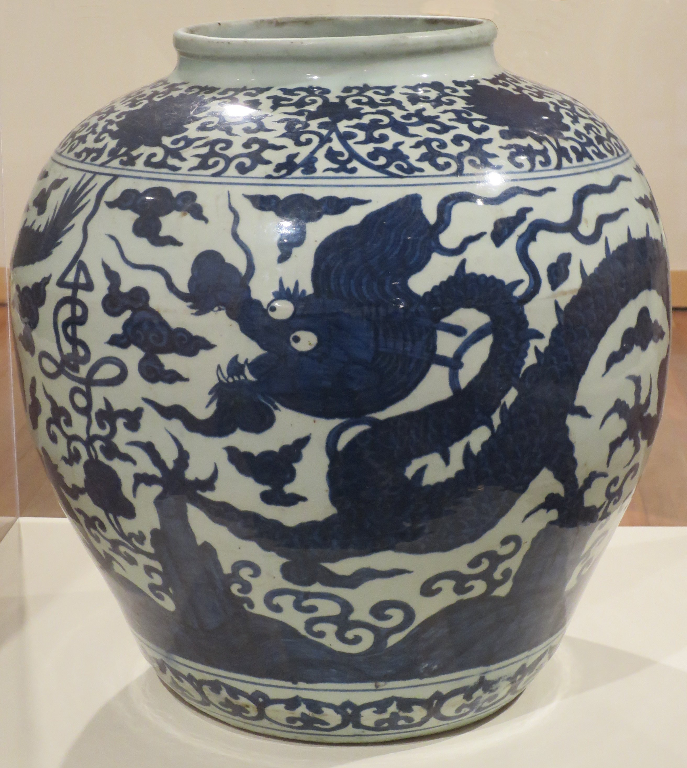 Chinese jar with dragon design, Ming dynasty, Jiajing period (1521-1567), 16th century, porcelain with underglaze cobalt oxide decoration, Honolulu Museum of Art accession 1568